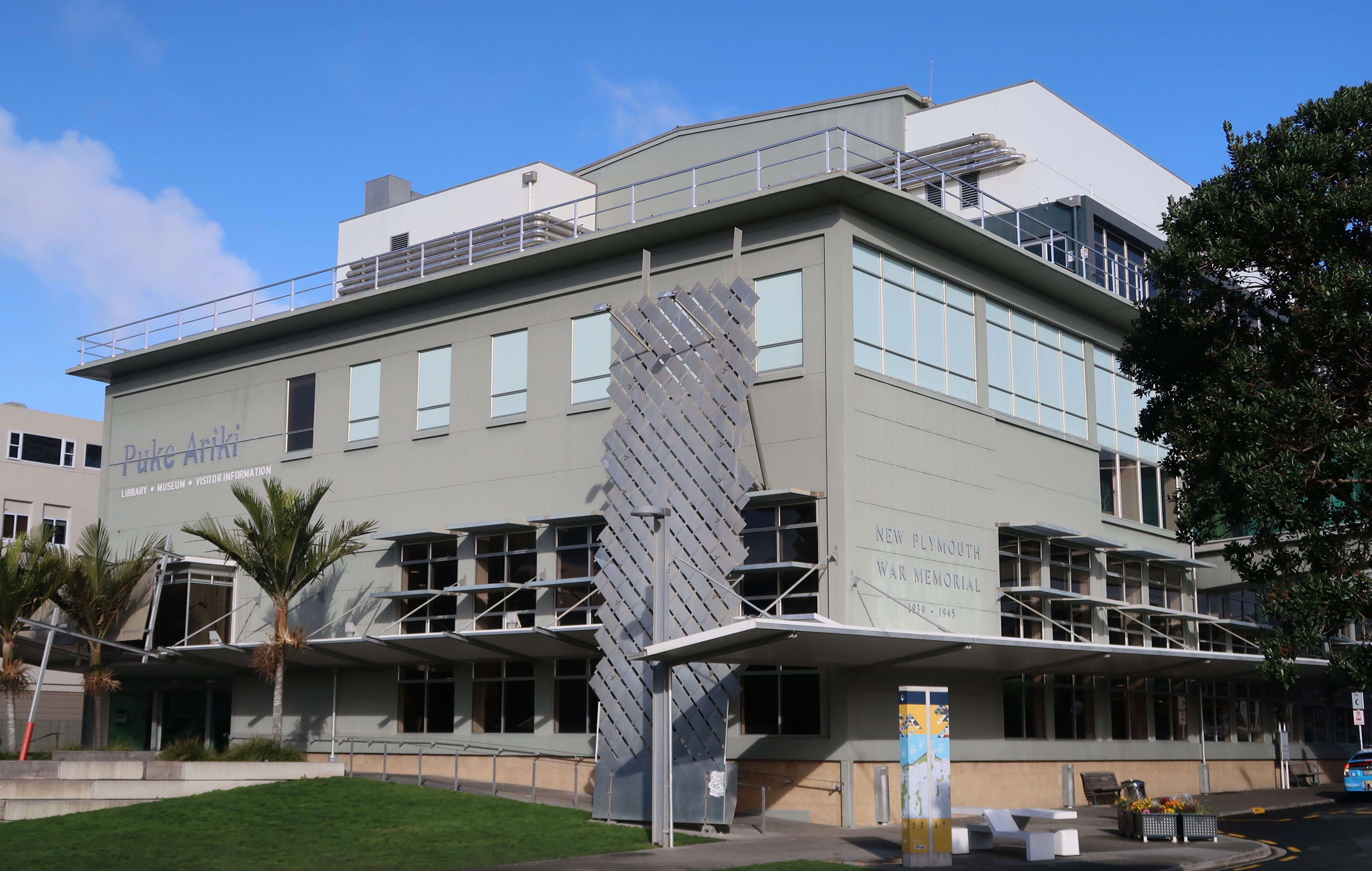 Puke Ariki, the museum and library in New Plymouth, New Zealand. This is the original 1960 War Memorial building housing library, museum, and War Memorial Hall.